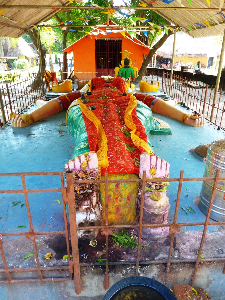 Photo of goddess